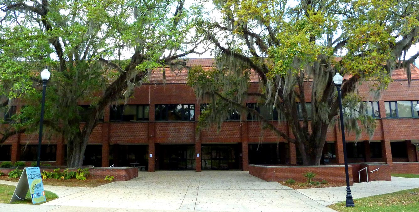 The Louis Shores Building, Florida State University Campus